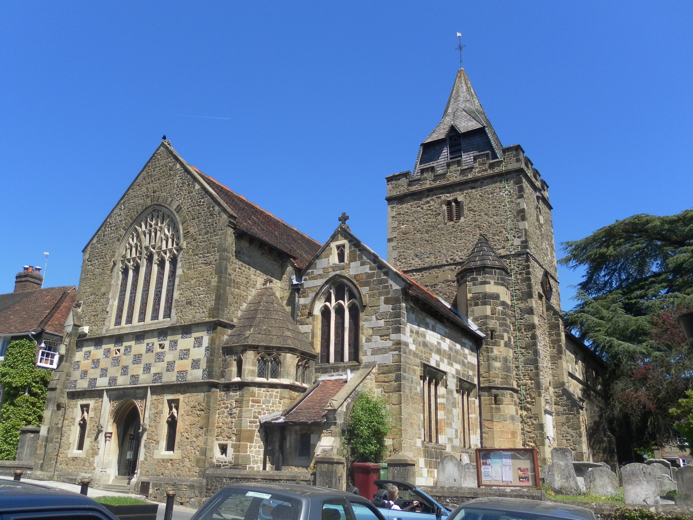 St Mary Magdalene's and St Denys' Church, Midhurst, District of Chichester, West Sussex, England. The Anglican parish church of Midhurst. Listed at Grade II* by English Heritage (NHLE Code 1234717)